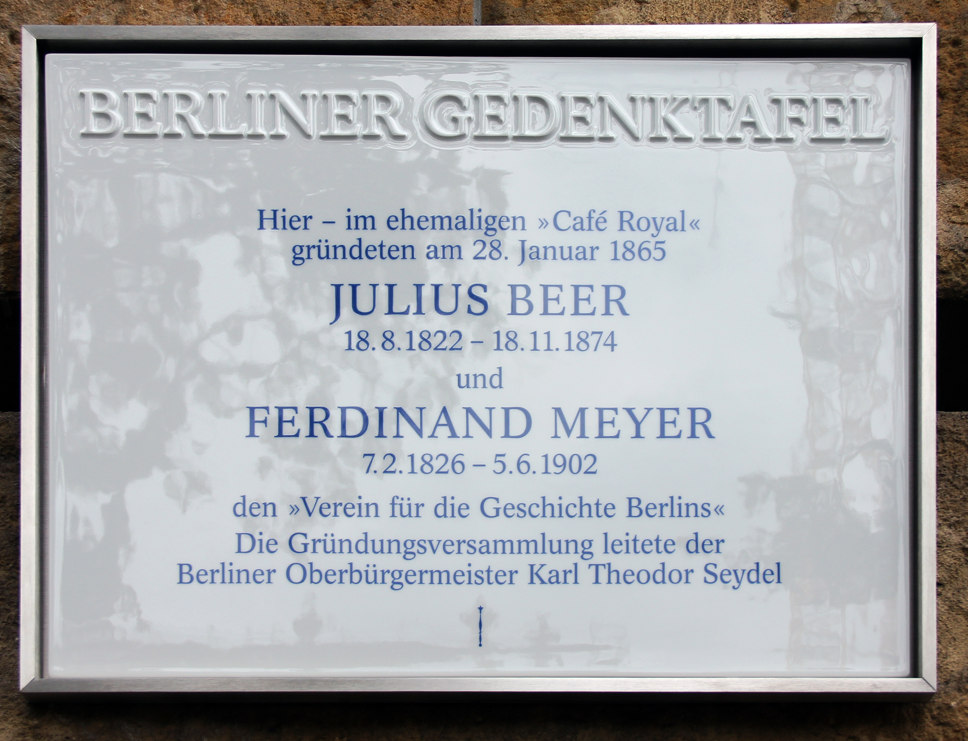 Berlin memorial plaque, Julius Beer and Ferdinand Meyer, Unter den Linden 13, Berlin-Mitte, Germany